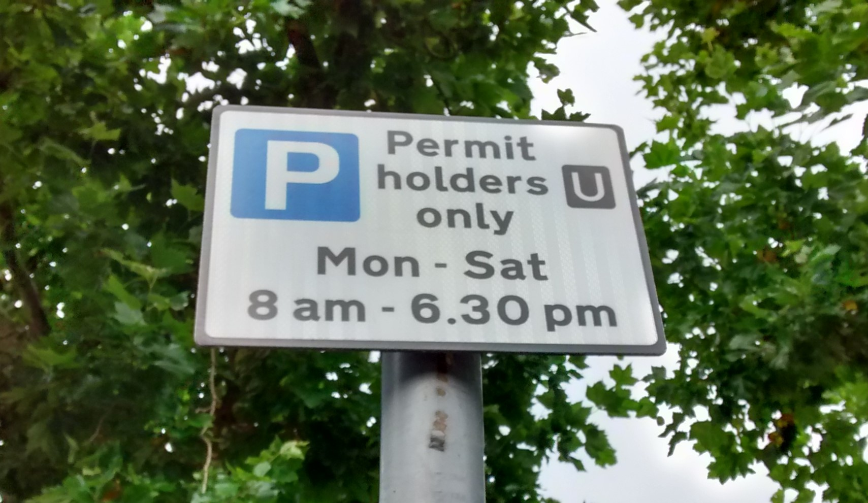 Controlled Parking Zone sign in Upton Park, London. The "U" patch designates the specific zone within Newham borough.